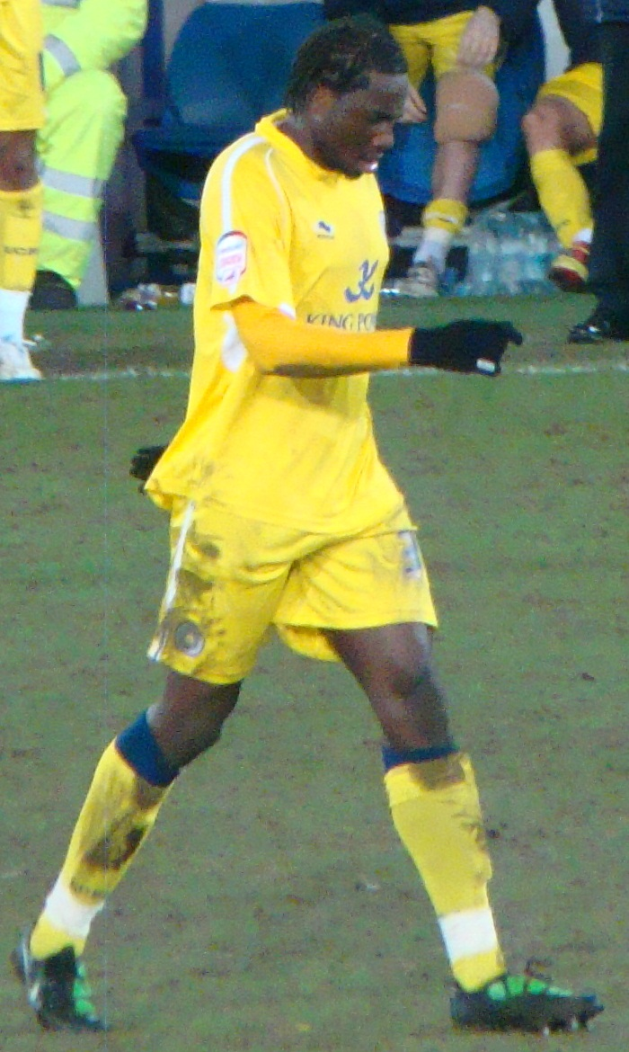 22/02/11 Cardiff V Leicester, Championship, Cardiff City Stadium, Cardiff, Wales